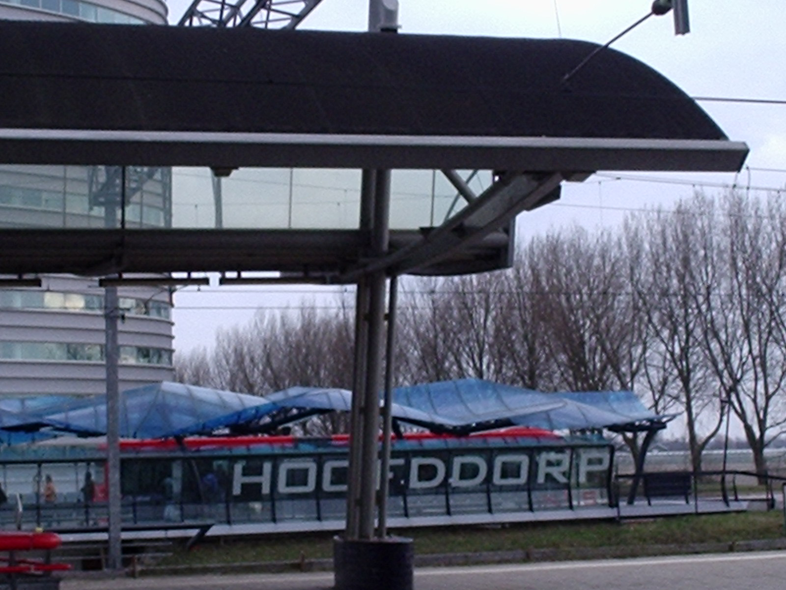 This picture features two ways of public transport in Hoofddorp: In front part of the train station can be seen. The modern bus stop in the distance is part of the longest free bus track in the world, named "Zuidtangent", it runs from Amsterdam to Haarlem through Schiphol Airport and Hoofddorp.